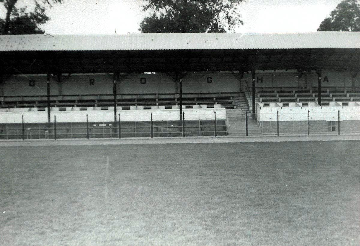 The original covered sitting area has been reconstructed in the beginning of 70's